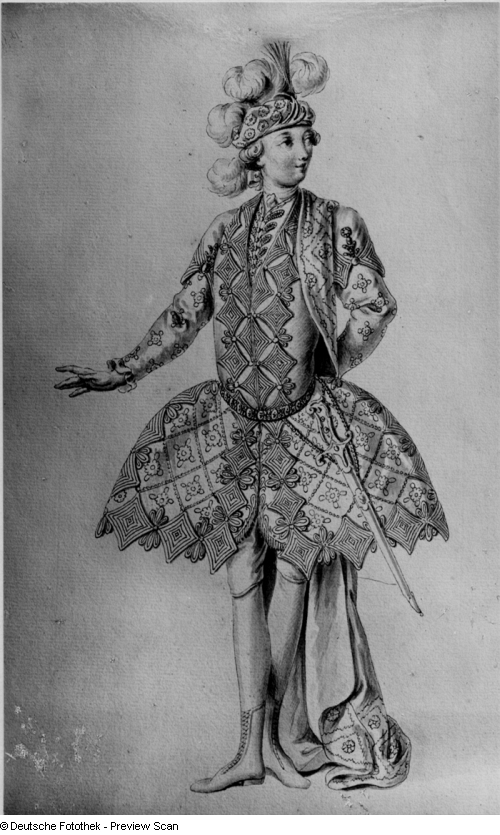 Pasquale Bruscolini (aka Pasqualino) as Aminta in "L'Olimpiade" opera by Johann Adolph Hasse first shown at Dresden Court Theatre 16 February 1756. Drawing by Francesco Ponte From: Vestiarium der Oper "L'Olimpiade", Blatt 8. Dresden: Kupferstich-Kabinett Ca 150